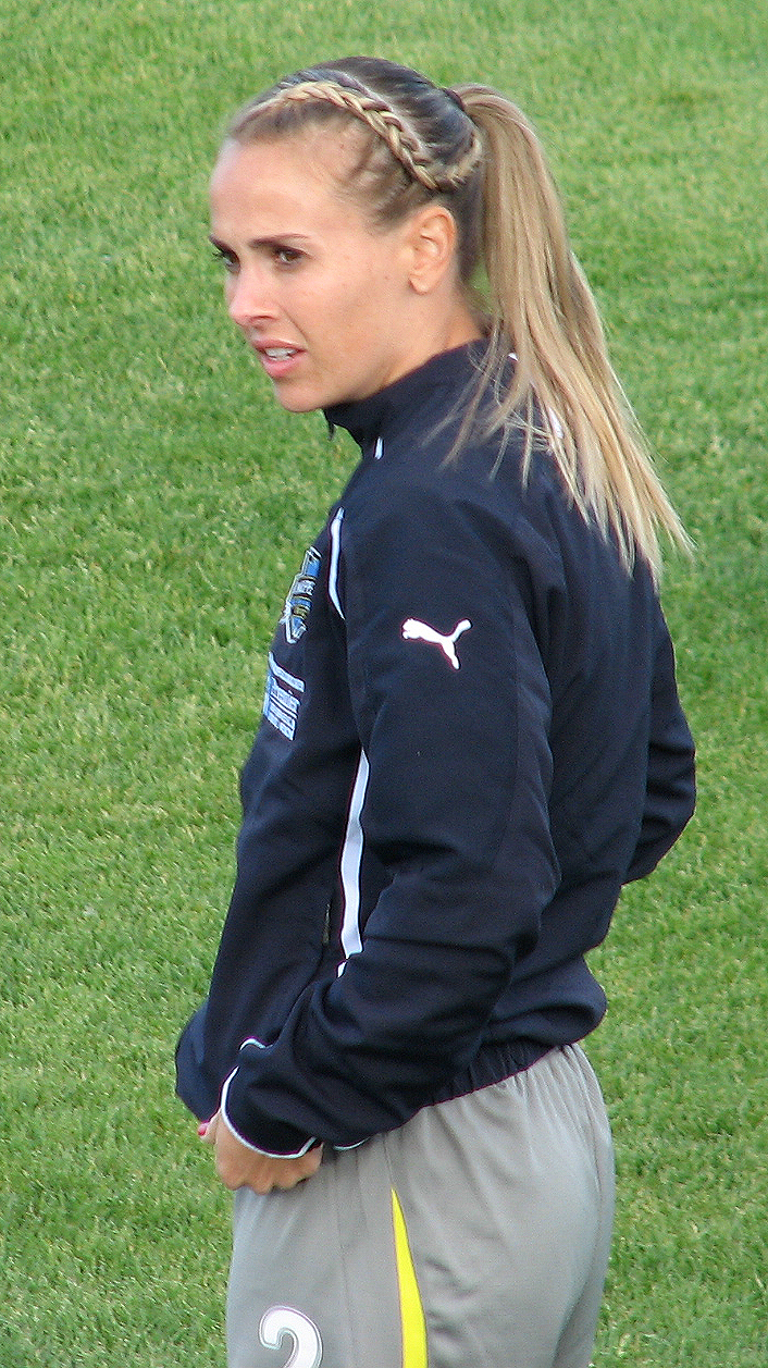 Heather Mitts of the WPS Philadelphia Independence.